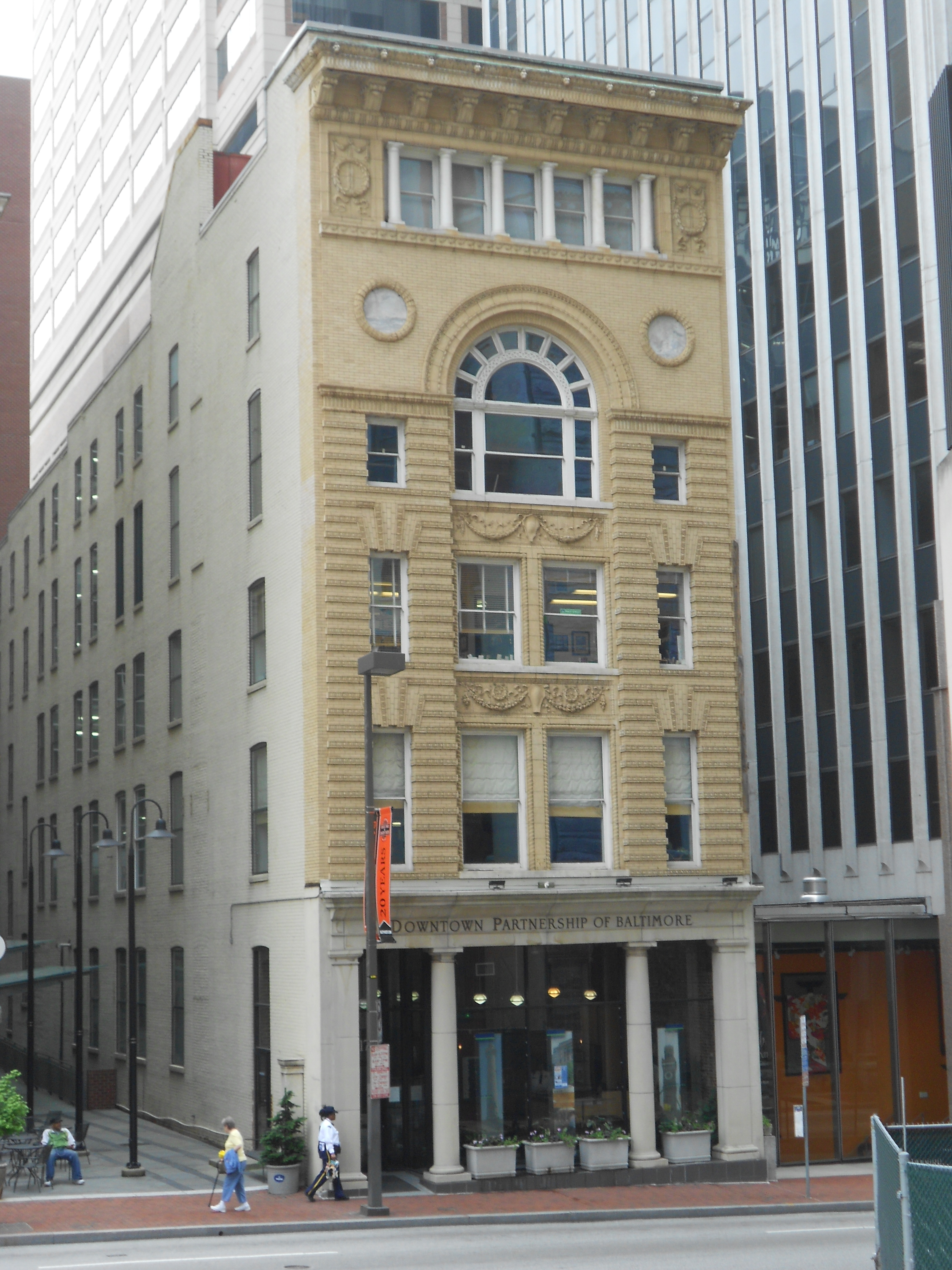 Home office of the Baltimore Downtown Partnership, located on North Charles Street of Downtown Baltimore